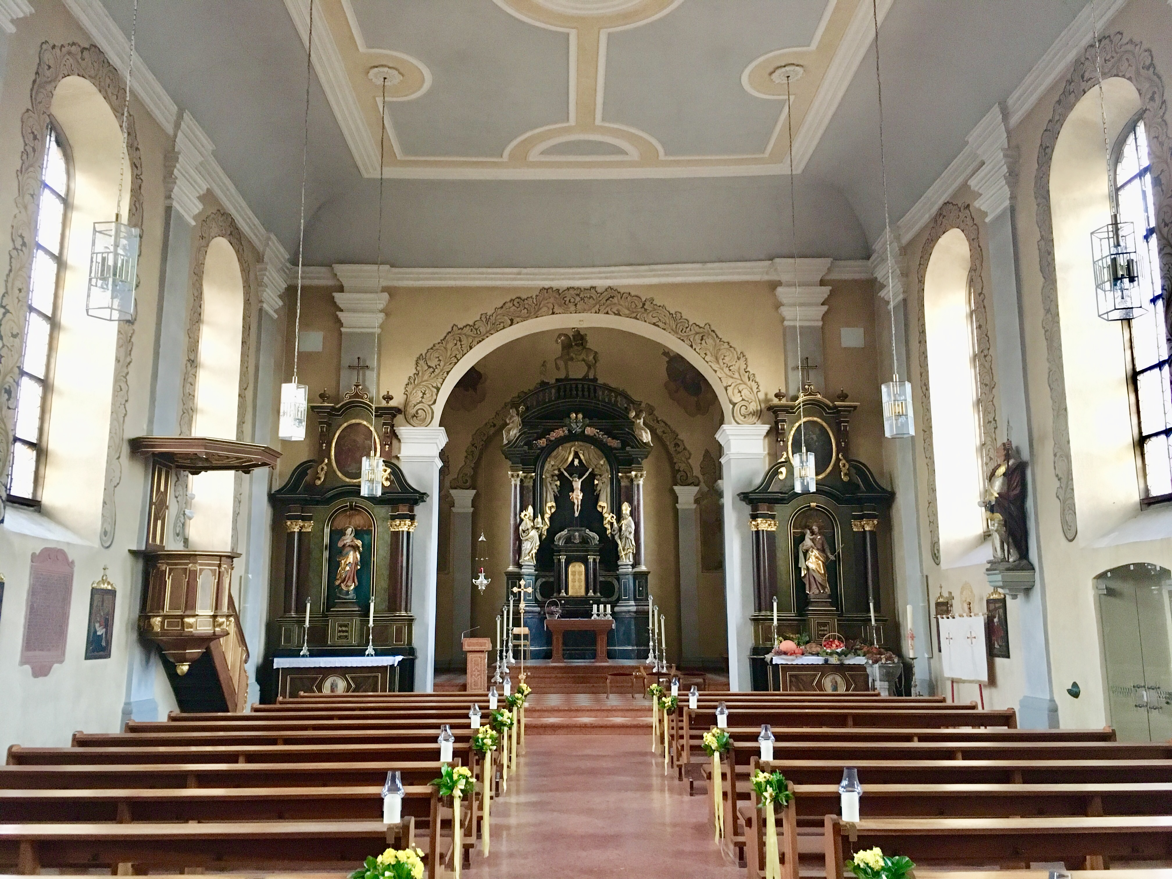 Interior St Gereon, Nackenheim (Germany)